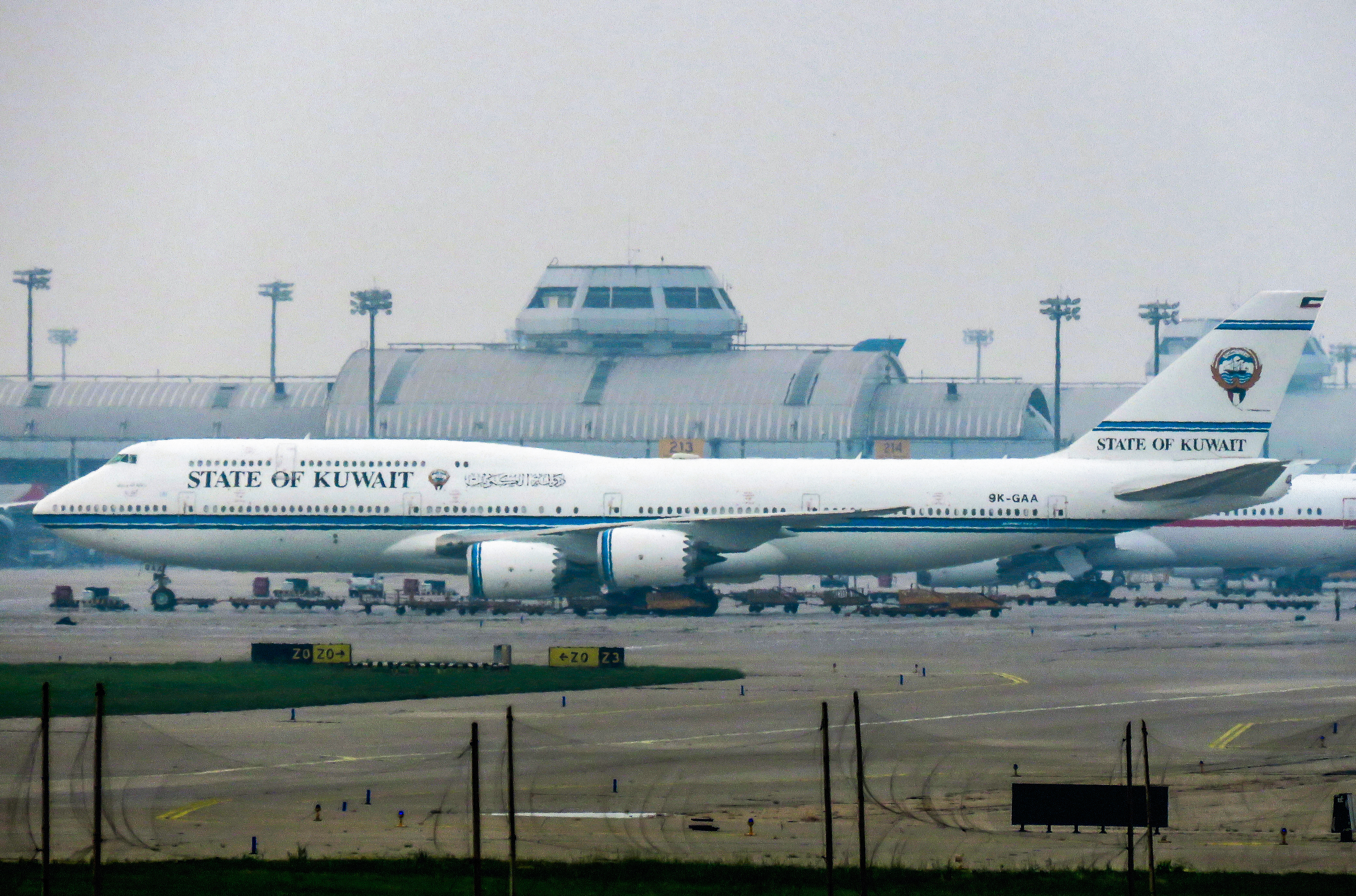 Sabah Al-Ahmad Al-Jaber Al-Sabah, the emir of Kuwait, arrived Beijing at 23:12 yesterday. Maybe he doesn't like overnight trips... By the way, this 748BBJ is the first Boeing 747-8I in the world.